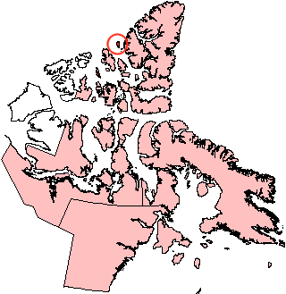 Base image created by Keith Edkins as GFDL, modified by Tim Vasquez.